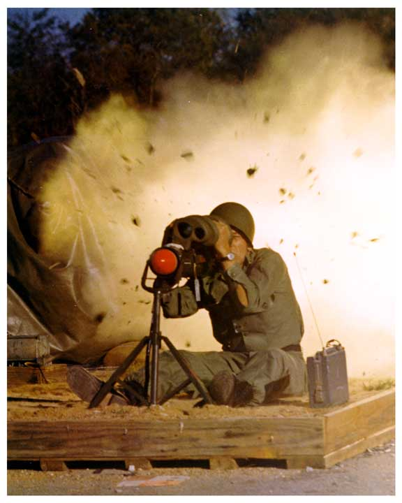 The M-47 Dragon Anti-tank missile.